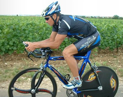 A cyclist in an individual time trial. Note that the front wheel is installed backward, in much the same manner as Jan Ullrich has experienced.